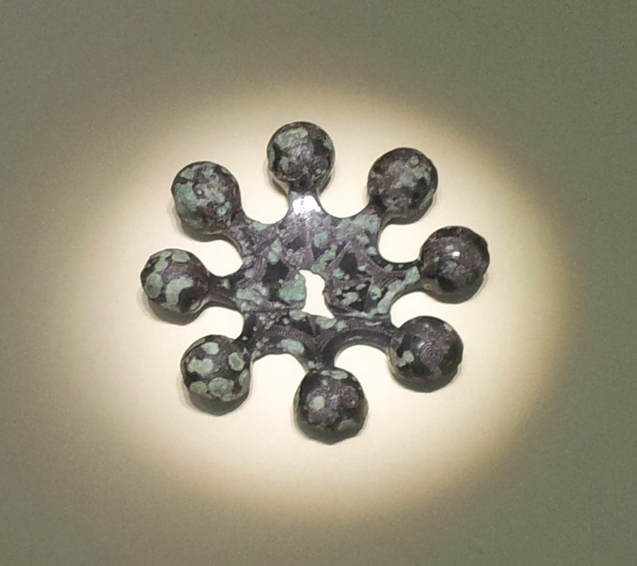 Eight-armed Bronze Rattle.